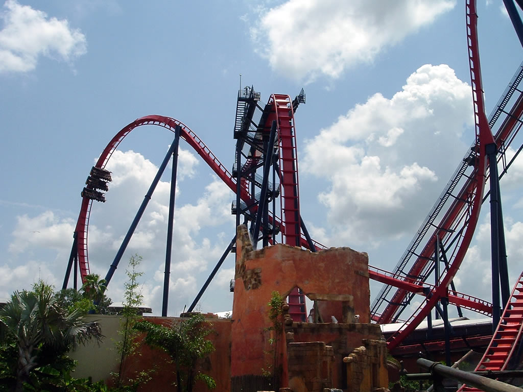 SheiKra's initial drop (right), immelmann (left), and second vertical drop (center).